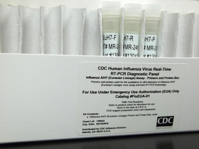 This image depicts some of the contents included in the CDC’s H7N9 diagnostic test kit. The kit contains rRT-PCR reagents for use by laboratories to detect human infections with the H7N9 virus. CDC has developed diagnostic test materials to specifically detect the new avian influenza A (H7N9) virus found in China. These test materials include rRT-PCR reagents (primers and probes), controls and an rRT-PCR test protocol.